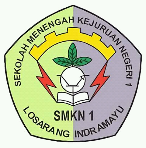 Losarang State Vocational High School